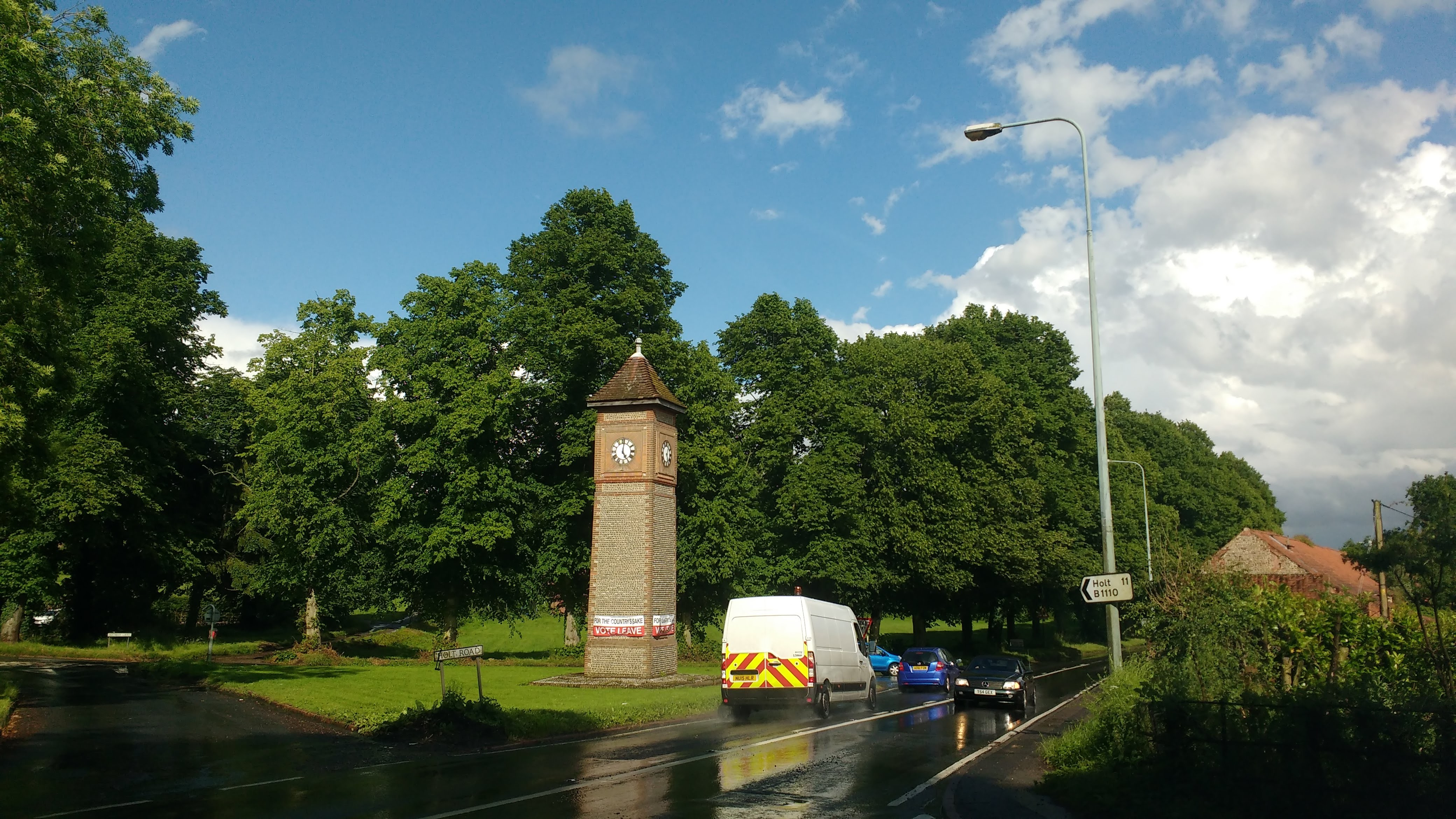 Guist